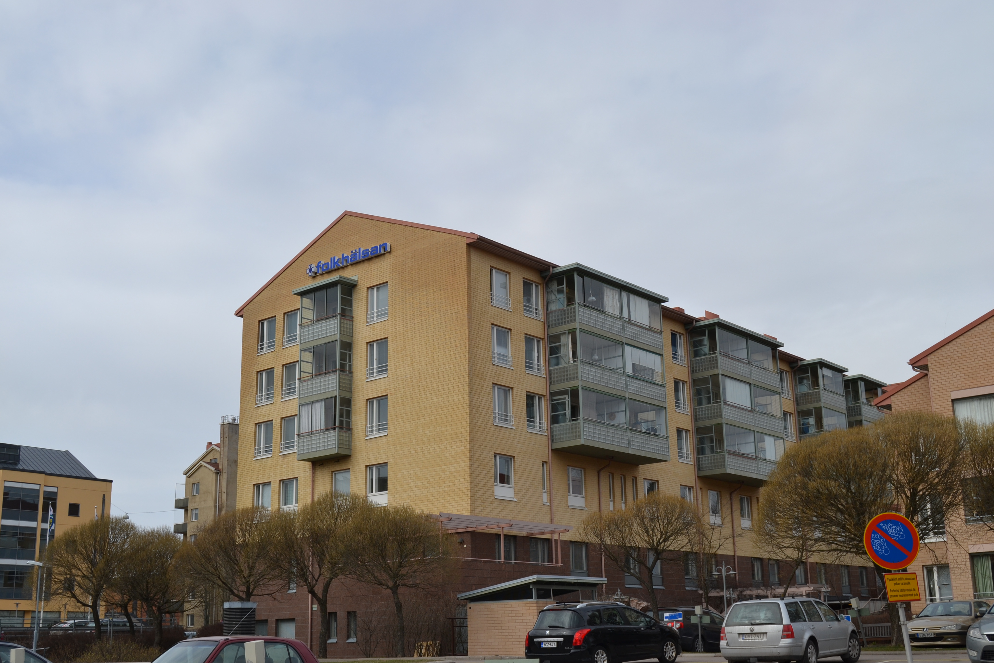 Folkhälsan senior house, Mannerheimintie 97, Helsinki, Finland.